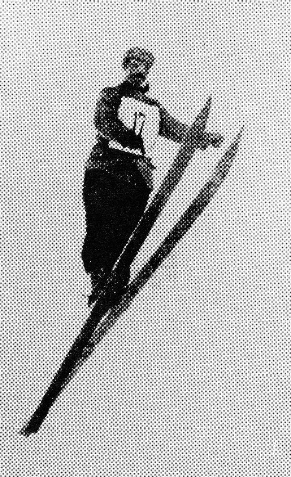 Paul Braaten (born 1876), Norwegian skier